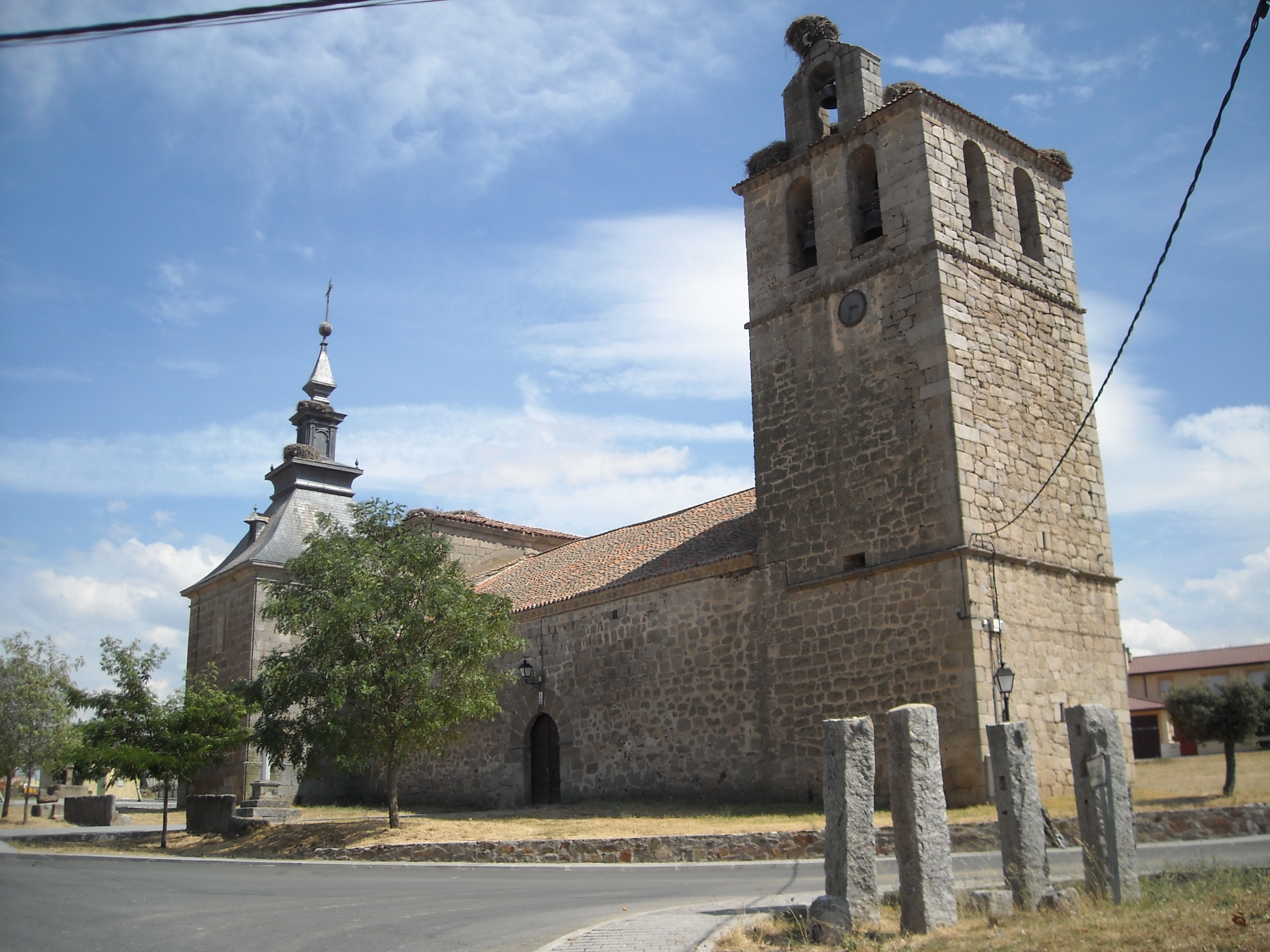 Church of St. Sebastian, Aldeavieja, Santa María del Cubillo, Ávila, Spain